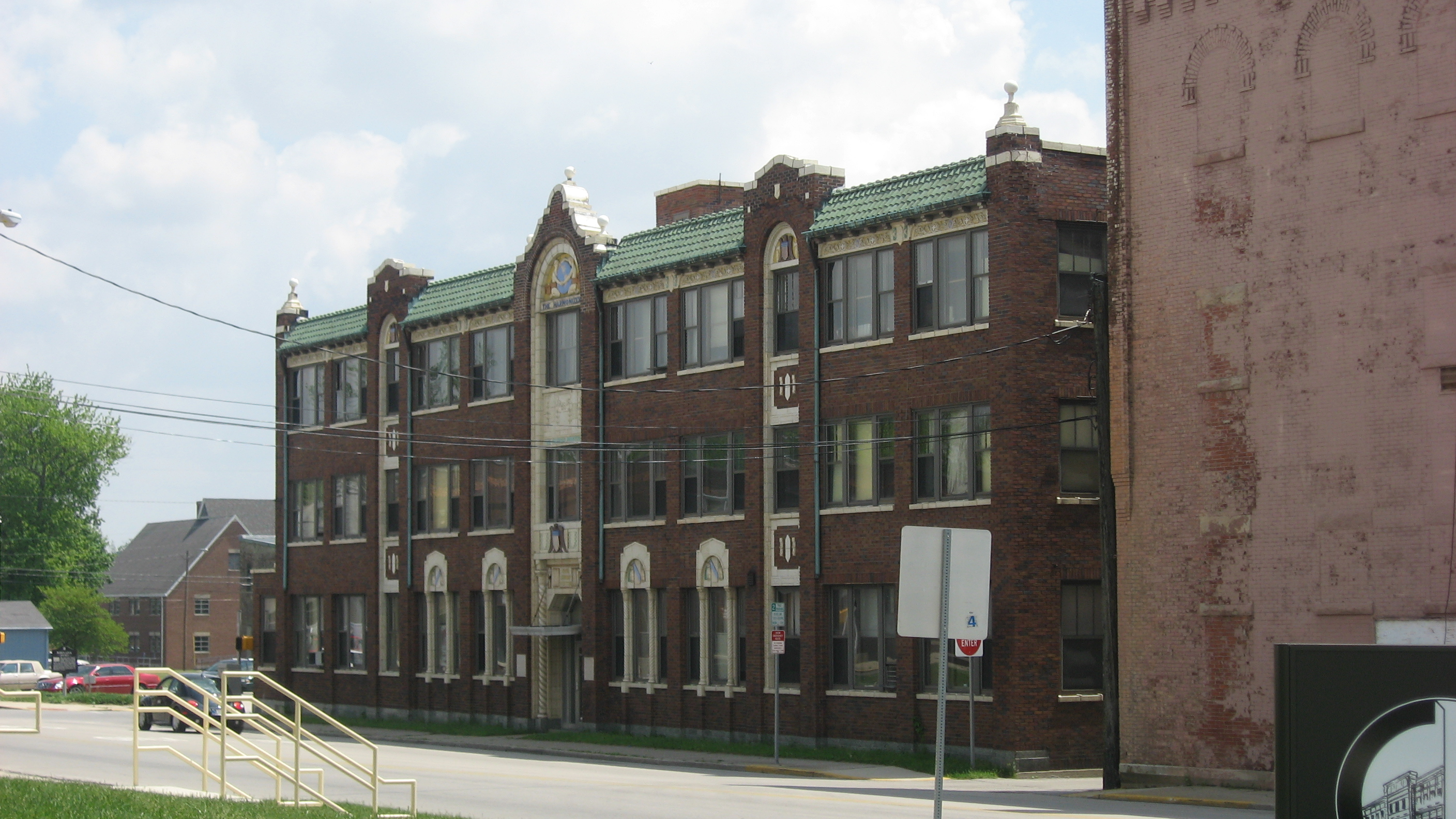 Front of the former offices of Our Sunday Visitor (now a sporting goods store), located at 41 E. Park Drive (U.S. Route 224/State Road 5) in downtown Huntington, Indiana, United States. Built in 1926, it is part of the Huntington Courthouse Square Historic District, a historic district that is listed on the National Register of Historic Places.